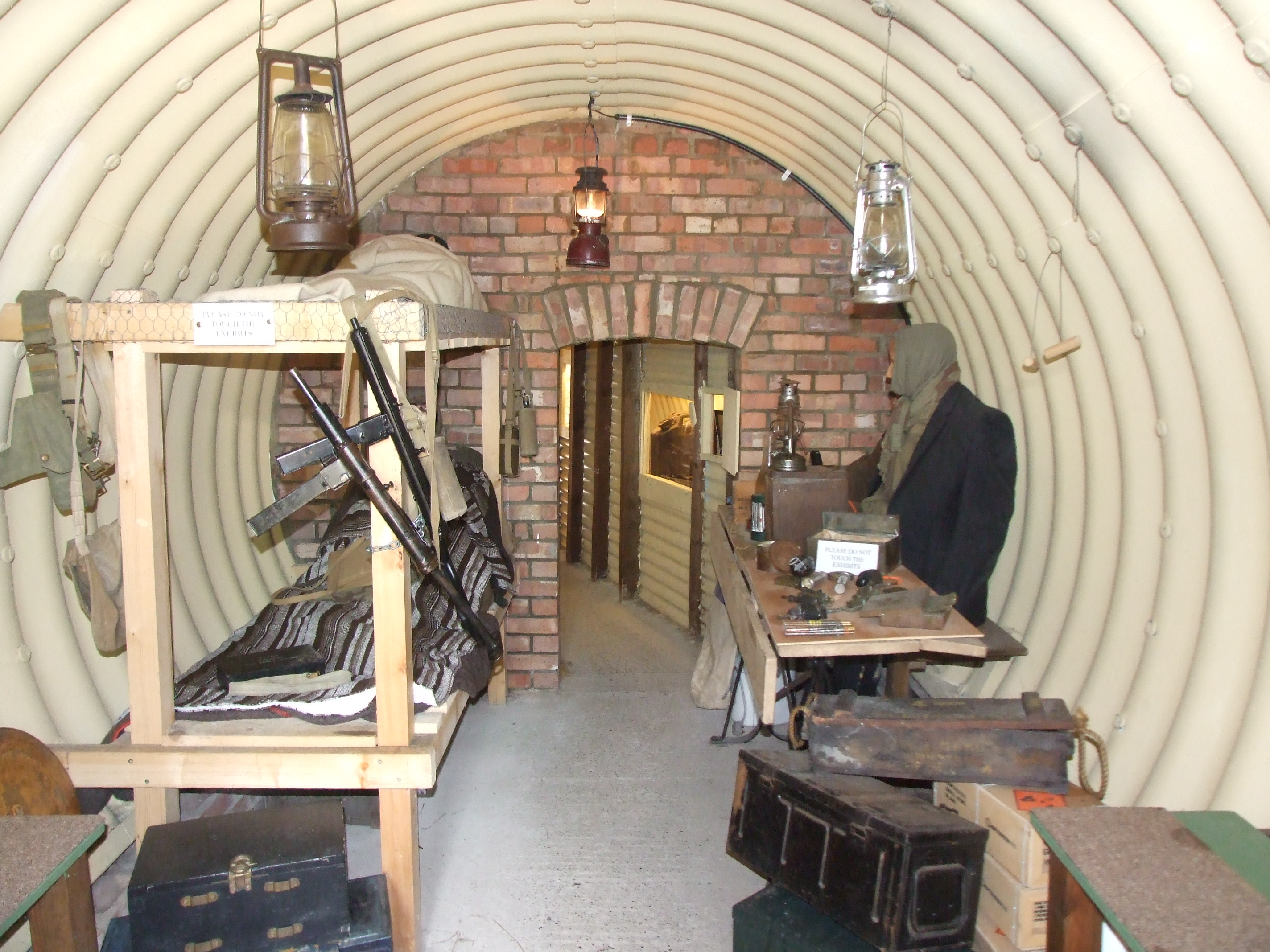 Parham Airfield Museum, Parham airfield, Suffolk. Museum of the British Resistance Organisation: reconstruction of an Auxiliary Unit operational base.